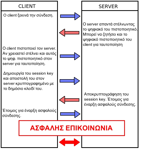 SSL Handshake